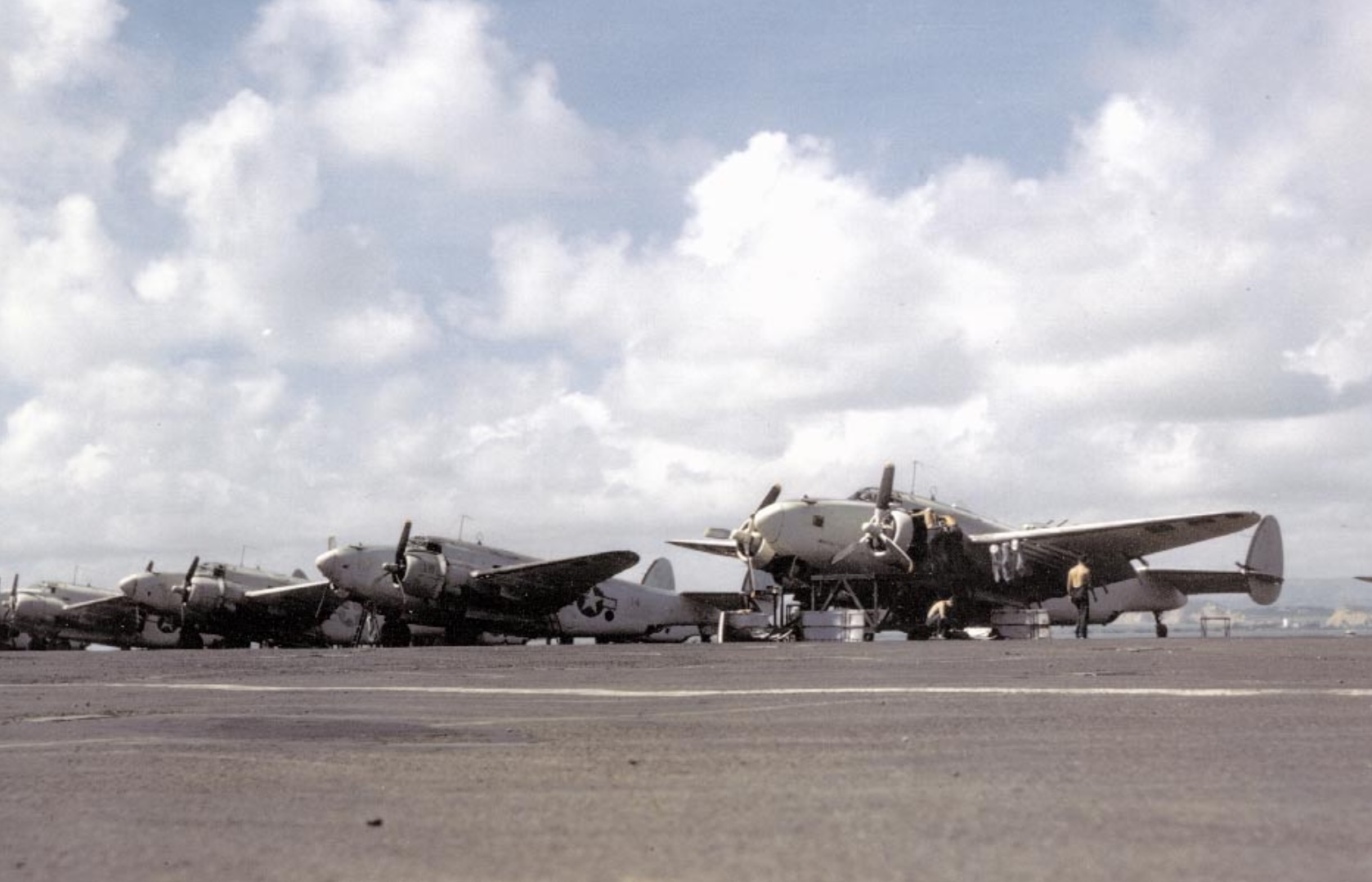 U.S. Navy Lockheed PV-1 Ventura patrol bombers on an airfield in the Caribbean in 1944/45. The aircraft may belong to VPB-147.